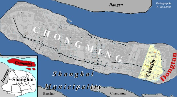 An inaccurate map of Chongming Island, omitting the Jiangsu's exclaves of Haiyong and Qilong on the northern shore and with a highly inaccurate coastline of Qidong in Jiangsu. The inset map of Shanghai is also highly inaccurate. Chenjia highlighted and the Dongtan wetland reserve noted.